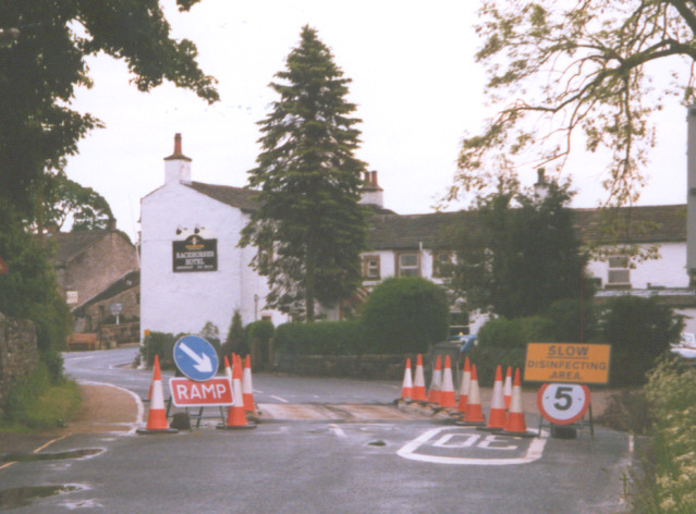 Disinfectant bath in road, Kettlewell. One of several vehicle disinfectant baths provided on roads in the Dales during the foot and mouth outbreak in 2001. This one at the start of the road from Kettlewell to Buckden.